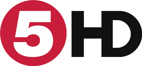 Channel 5 (UK)Channel 5 HD